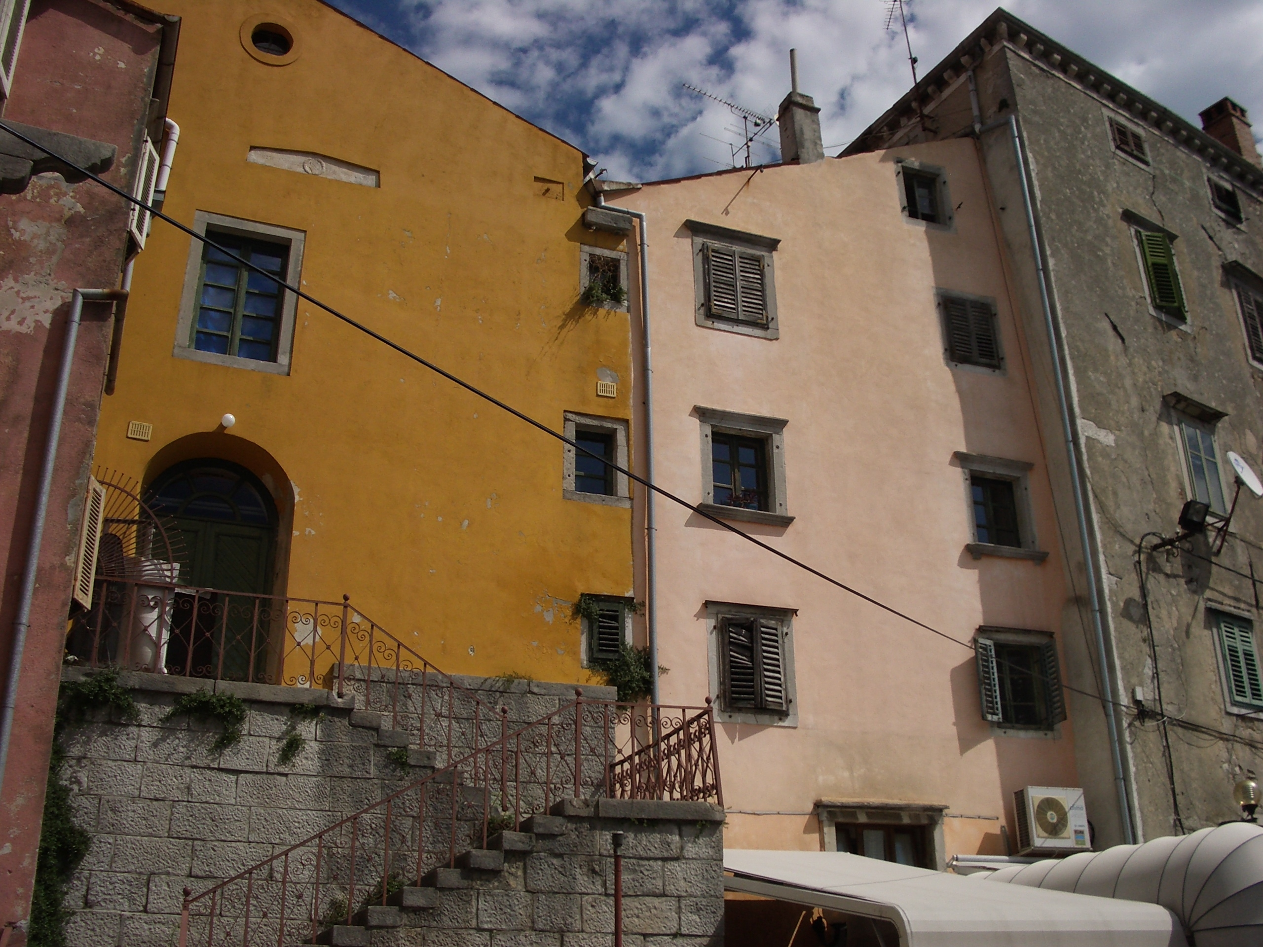 Houses on Labin, city of Istria, region in Croatia.